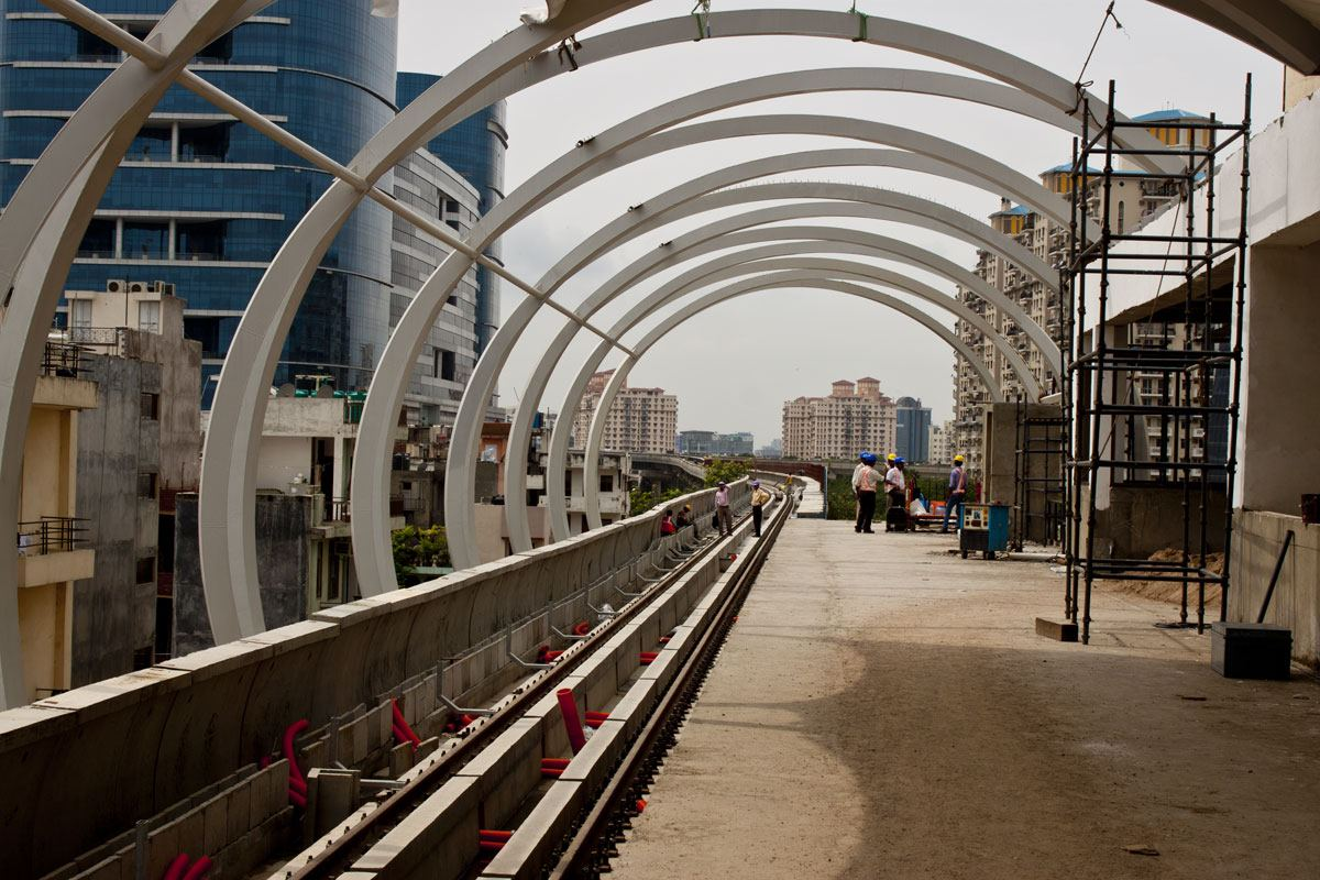 Station located at DLF Phase III Under Construction.